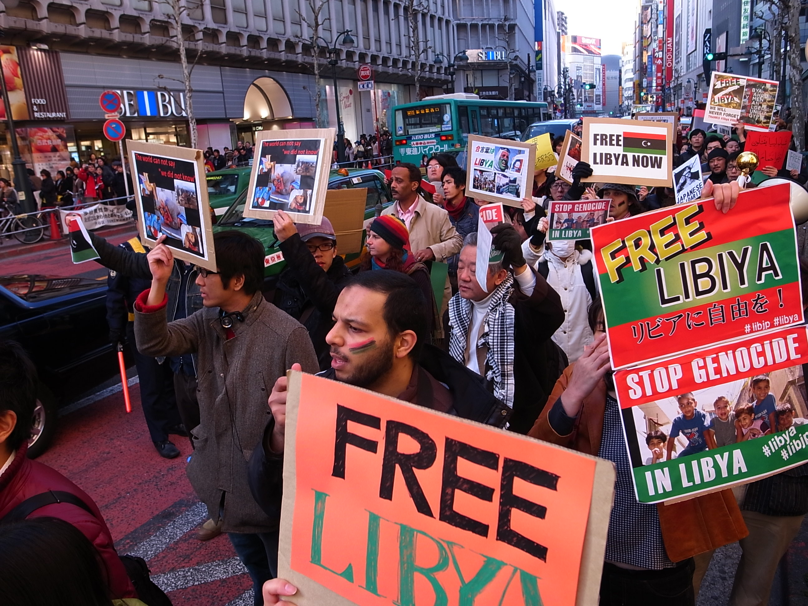 A march in Shibuya, Tokyo, Japan advocating democracy for Libya